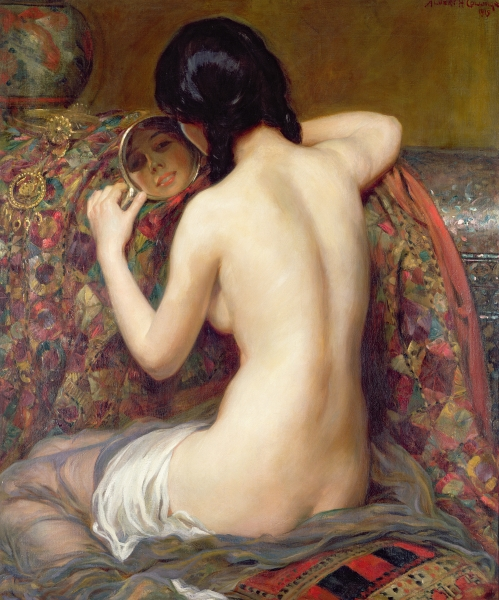 A Reflection, 1919 by Collings, Albert Henry (fl.1893-d.1947); Private Collection. BON63906